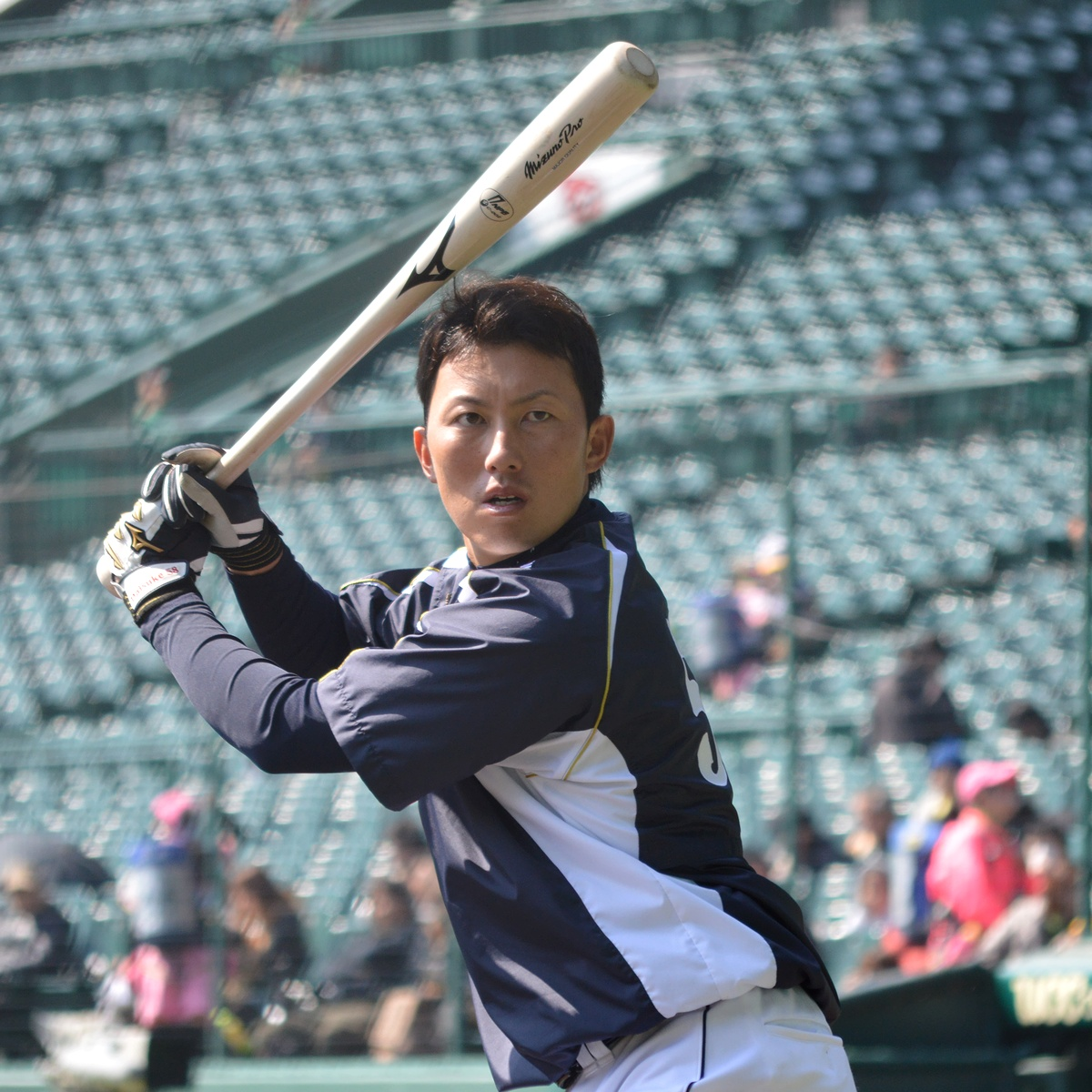 CD-Daisuke-Tanaka20130306